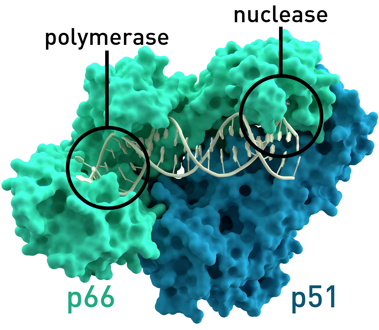 Surface representation of the crystal structure of wild-type HIV-1 Reverse Transcriptase, based on PDB 3KLF. The active sites of polymerase and RNase are highlighted.